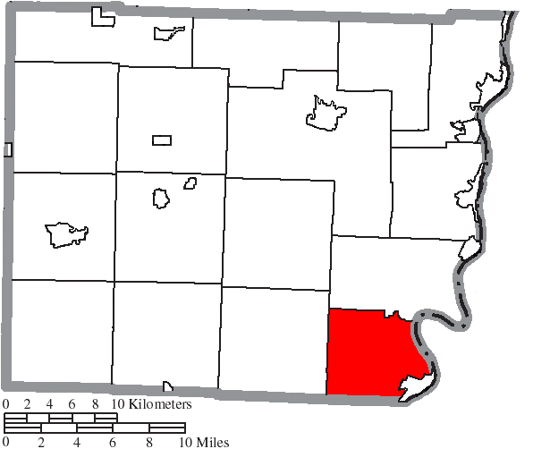 Map of the municipal and township boundaries of Belmont County, Ohio, United States, as of the 2000 census, with the location of York Township highlighted. Township borders are shown only in unincorporated areas in order to differentiate incorporated and unincorporated areas more clearly.